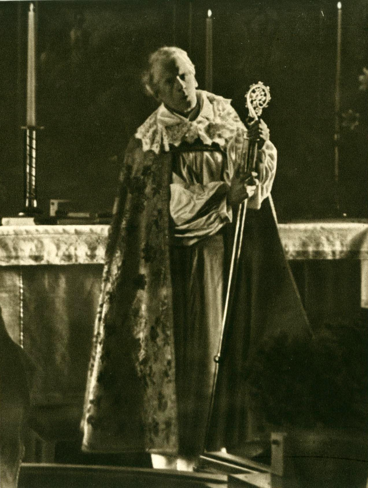 Bishop Einar Billing of Västerås, Sweden.